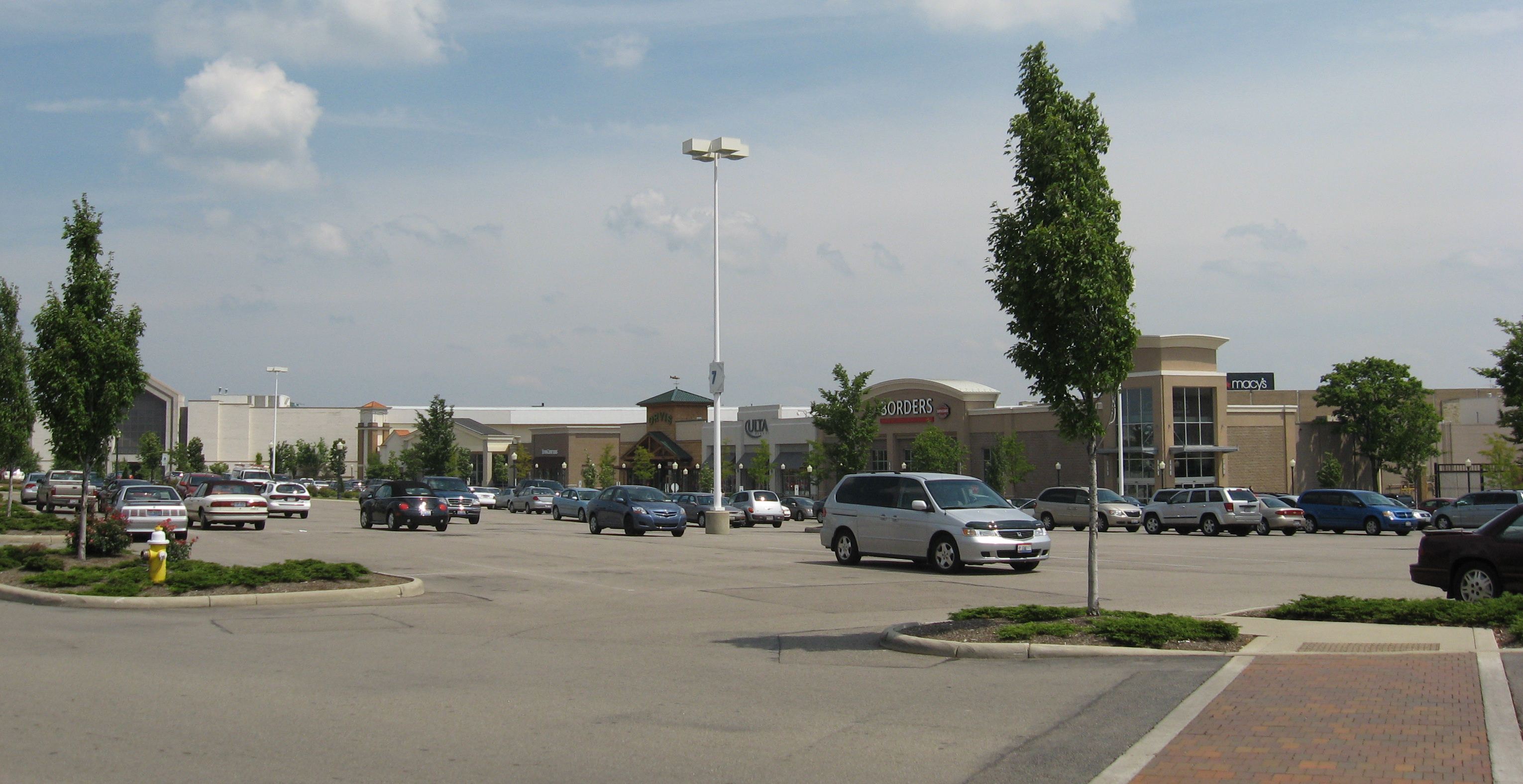 The Dayton Mall (Miamisburg, Ohio, USA)